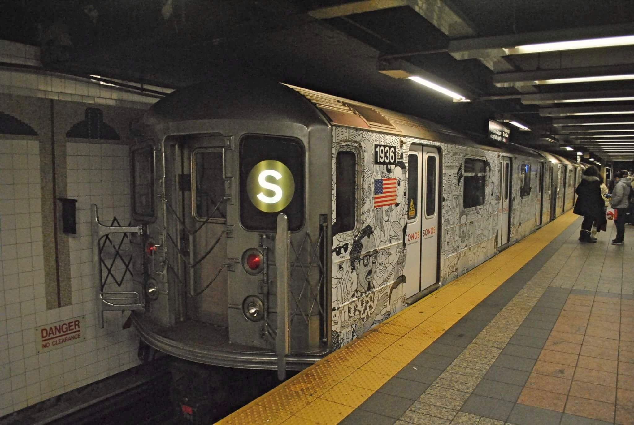 NYC Transit 1936